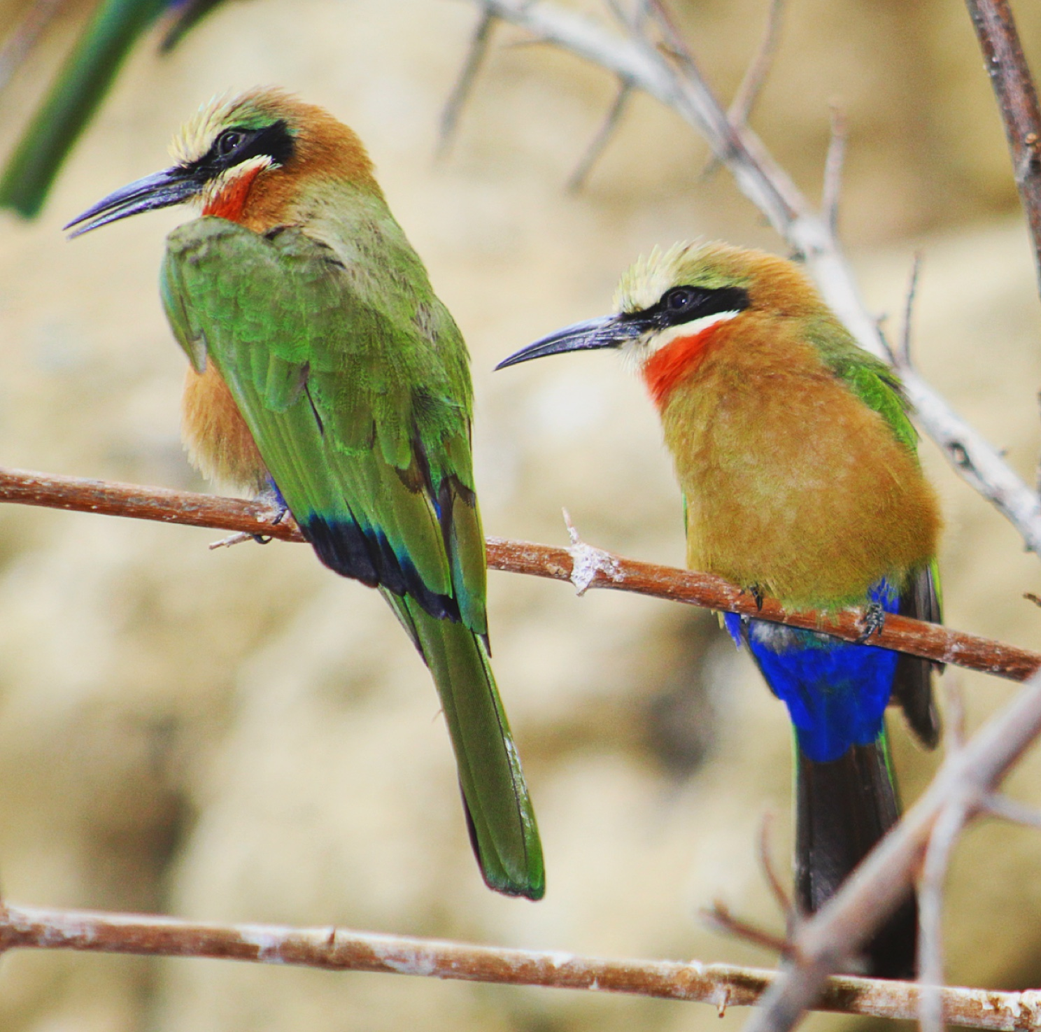 White-fronted bee-eaters in a U.S. zoo